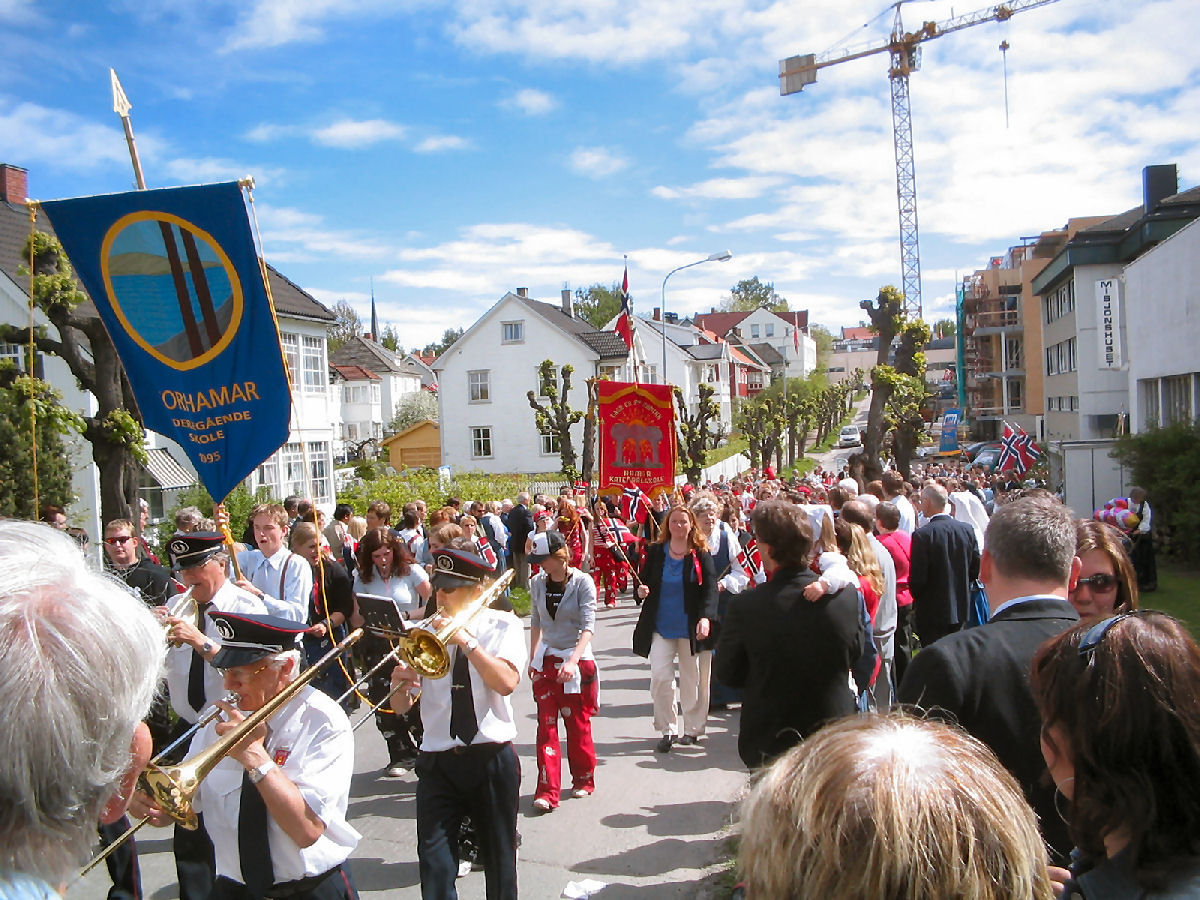 Celebration of the norwegian national day, 17th of May, in Hamar.